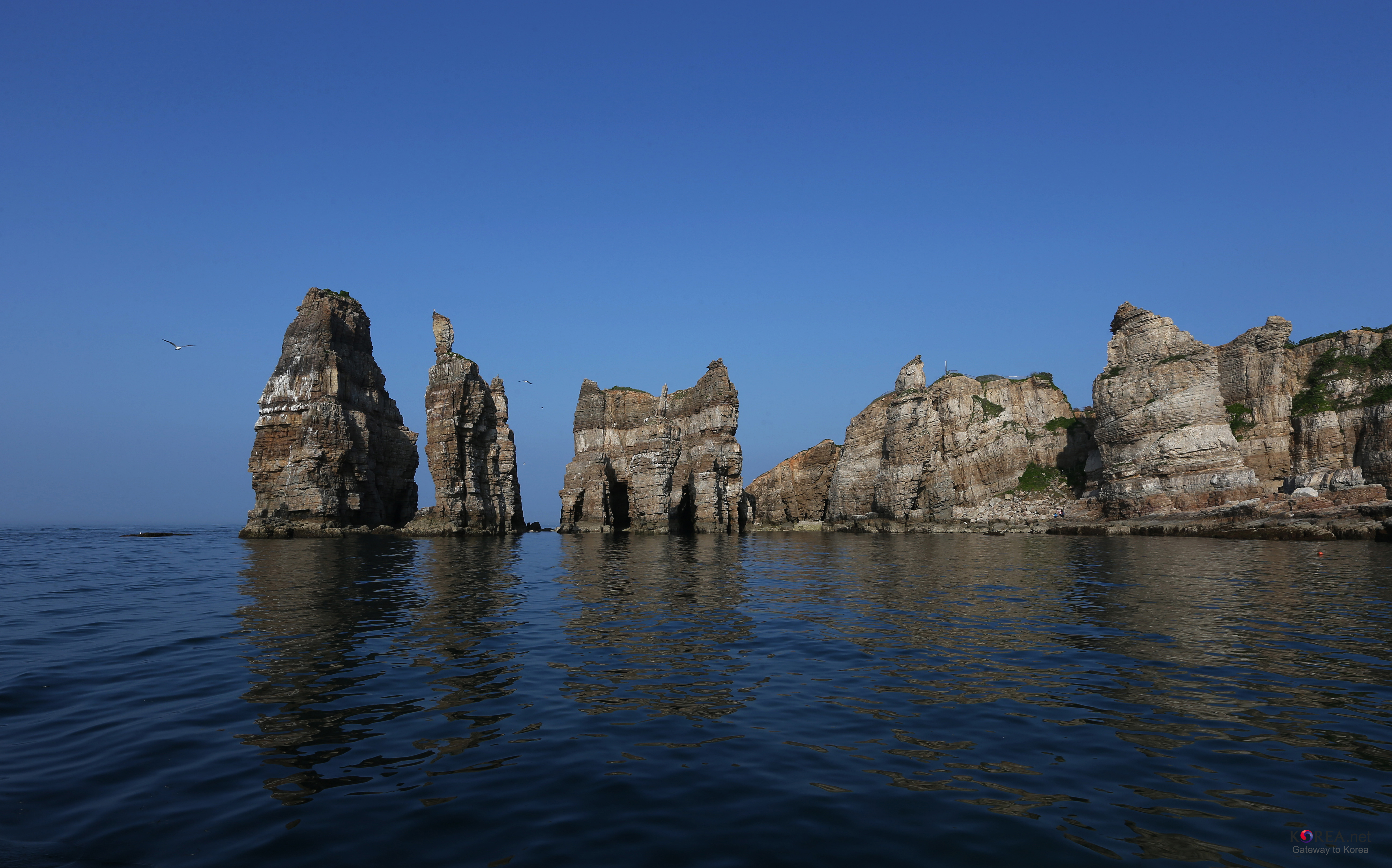 Baengnyeong Island - Korea’s northernmost point in the Yellow Sea.